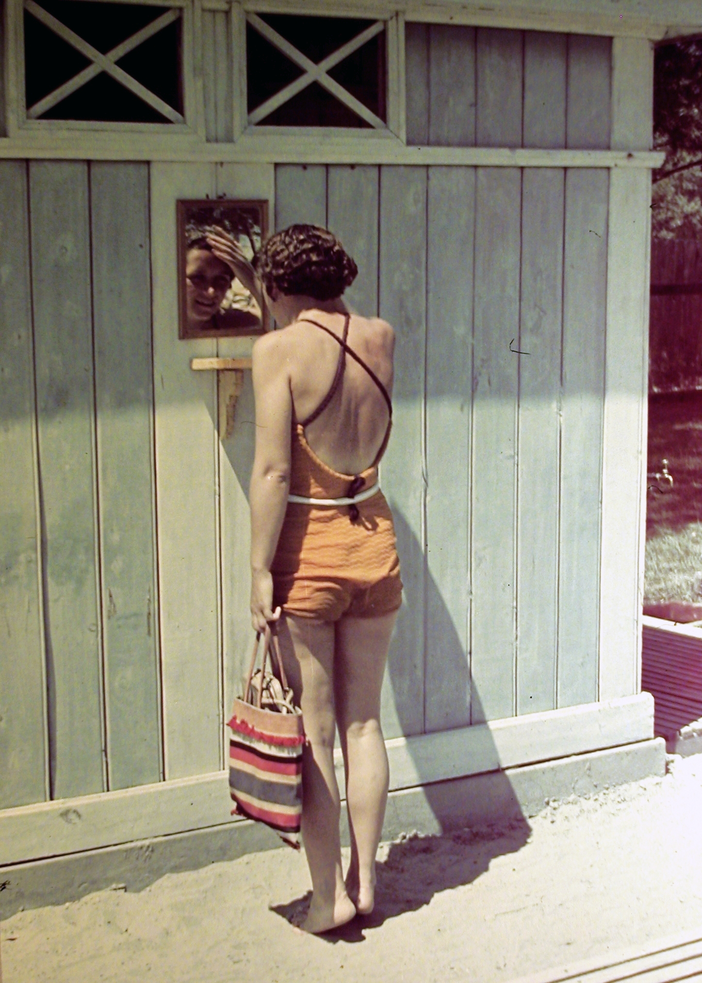 Hungary This Agfacolor photo (invention from 1936) was not colorized. Life before the Second World War. Tags: colorful, mirror, spa